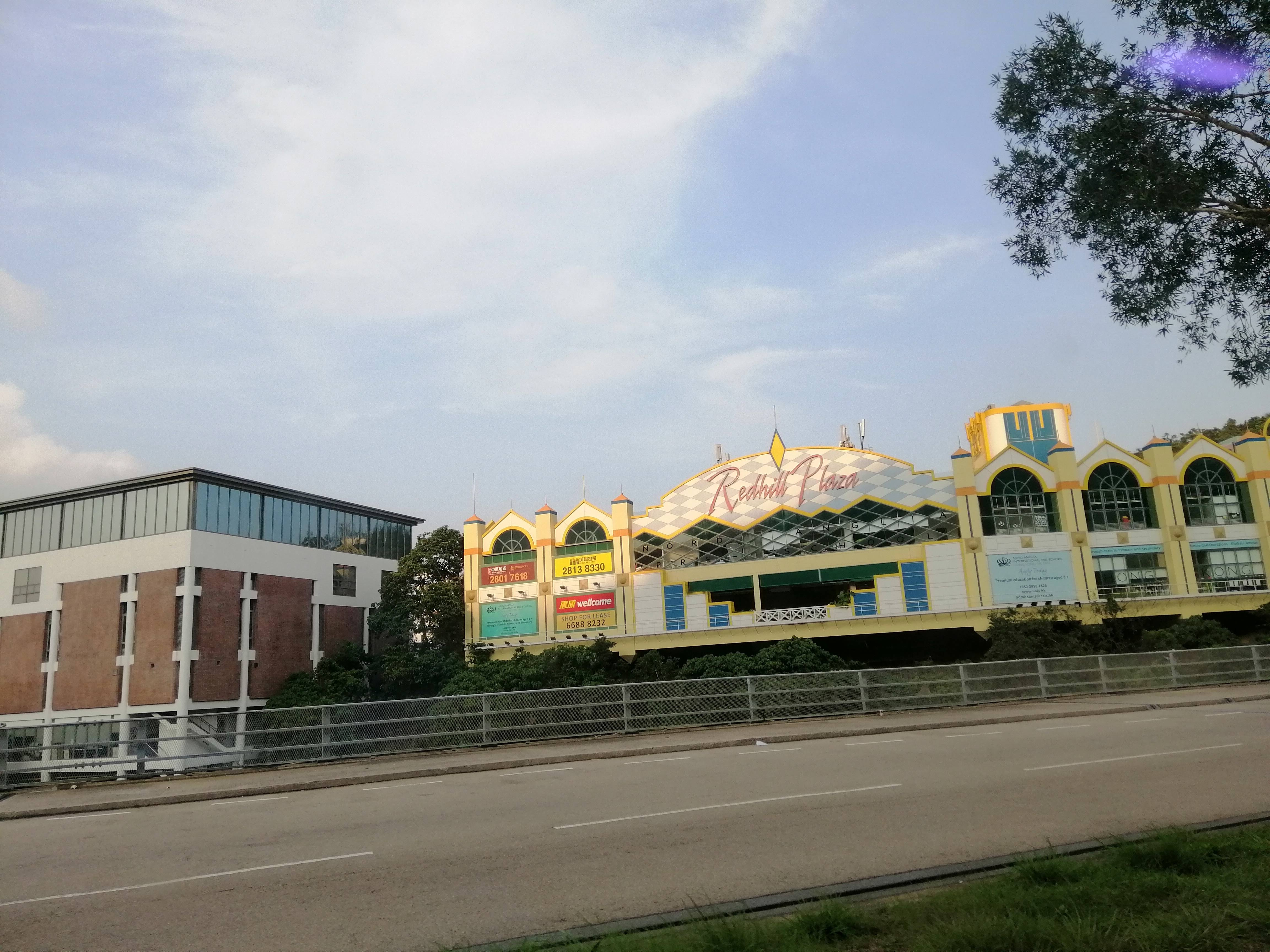 stanley view 9